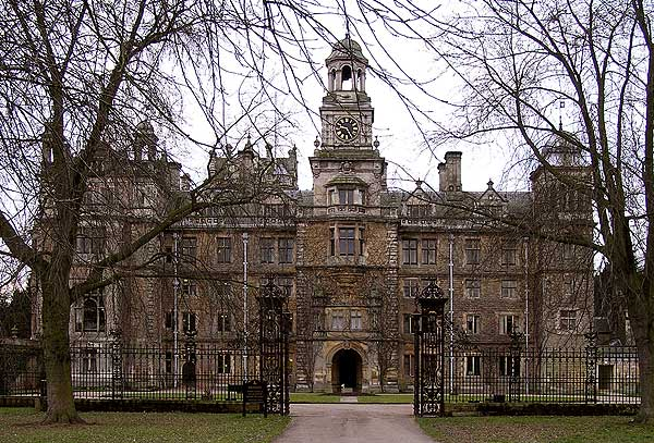 Thoresby Hall. Built in the 1890s, now a hotel, with adjacent gallery/craft shops in former stables